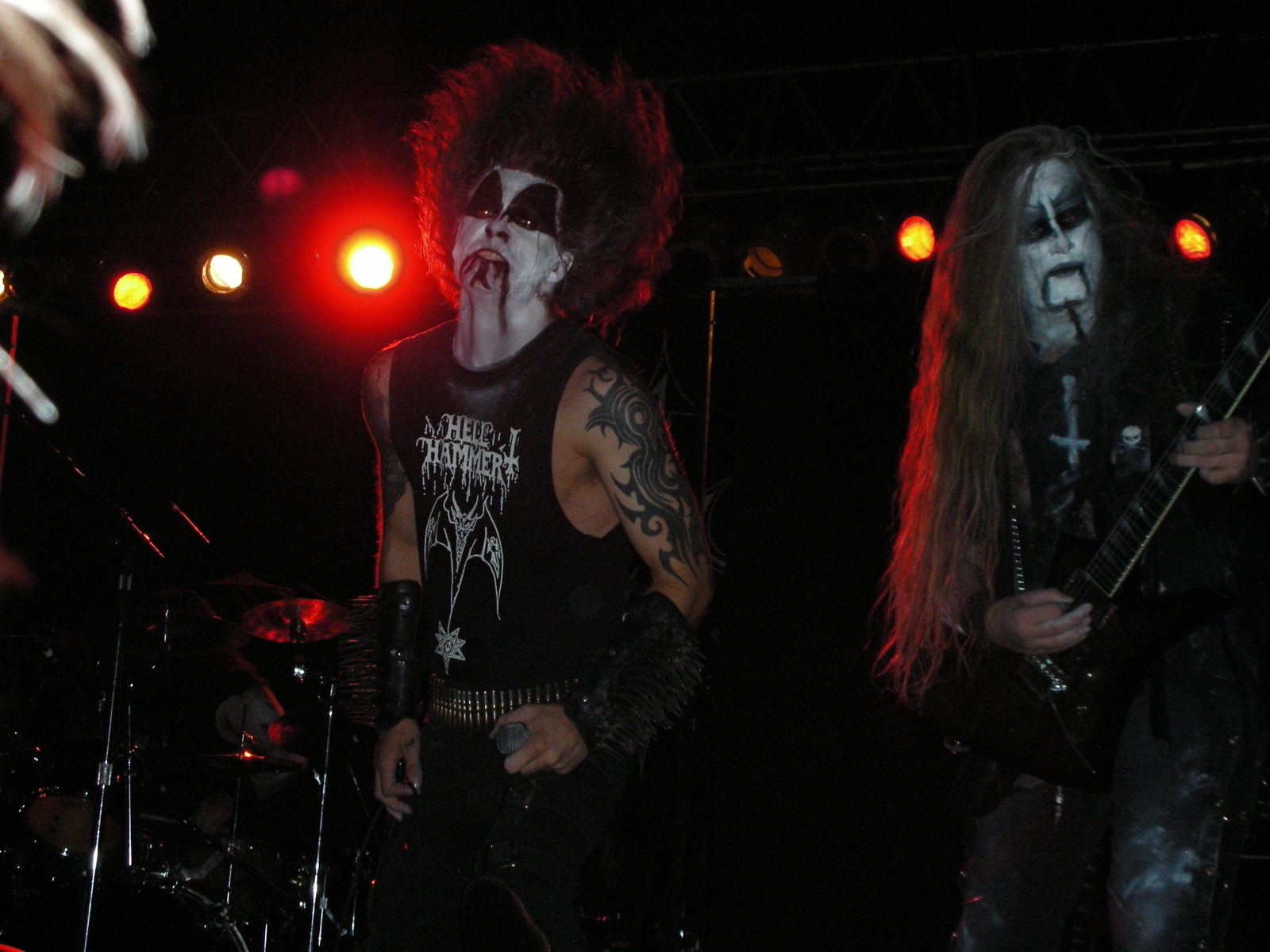 1349 live in Roseland Theater, Portland (2006)